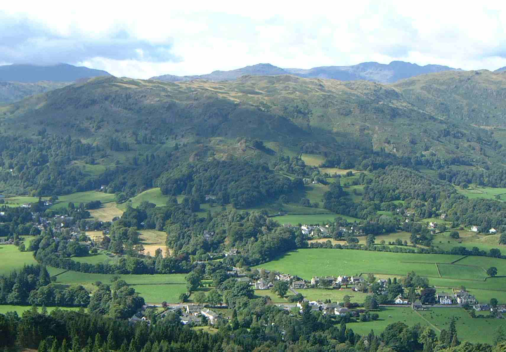 Personal photograph taken by Mick Knapton